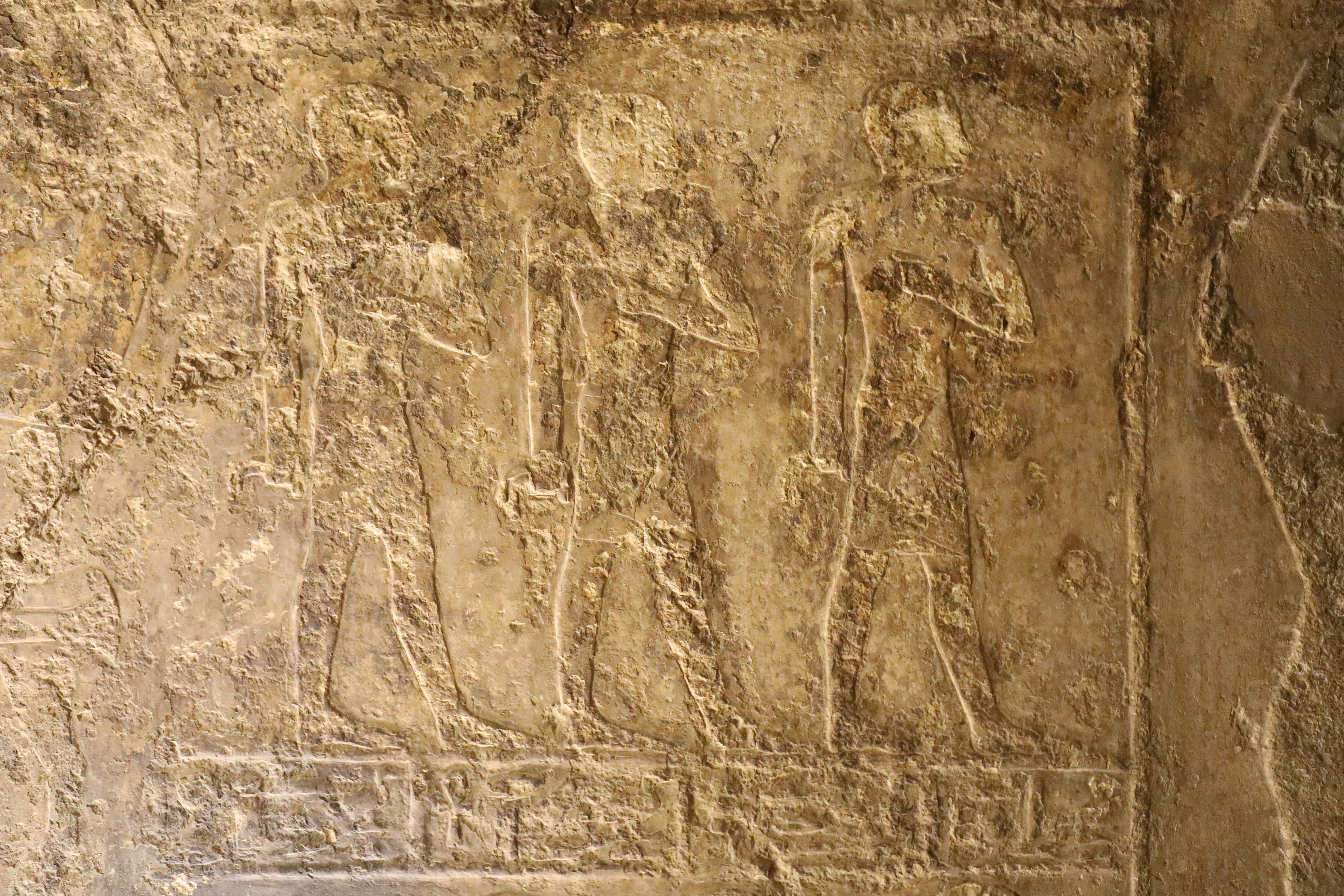 Chapel, sons of the tomb owner, tomb of Kai-khent (A3), al-Hammamiya necropolis, Egypt